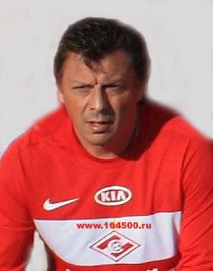 Valeri Valentinovich Shmarov (born February 23, 1965 in Voronezh) is a retired Soviet football player and currently a coach.